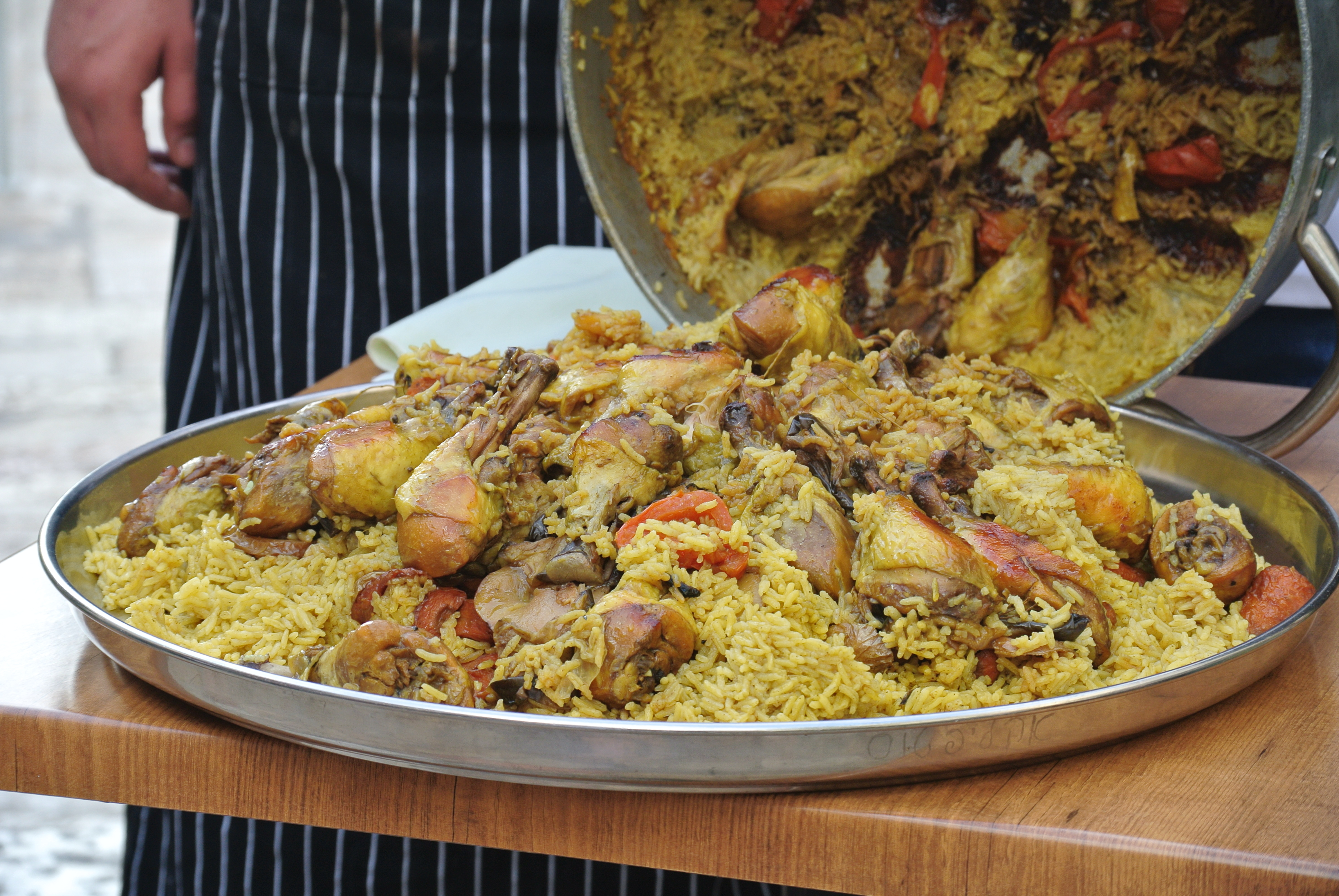 Moshe Basson of The Eucalyptus restaurant in Jerusalem serves makluba, the famous Palestinian dish of rice, chicken legs, lamb, eggplant, and other vegetables. Traditionally served upside down.